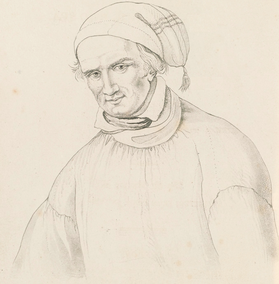 Jean-Baptiste Decoster, Napoleon's unwilling local guide during the Battle of Waterloo, sketched from life at La Belle Alliance on 16 September 1815 by John James Masquerier. Published 10 January 1817 by Baldewin & Jay, Padnoster Row